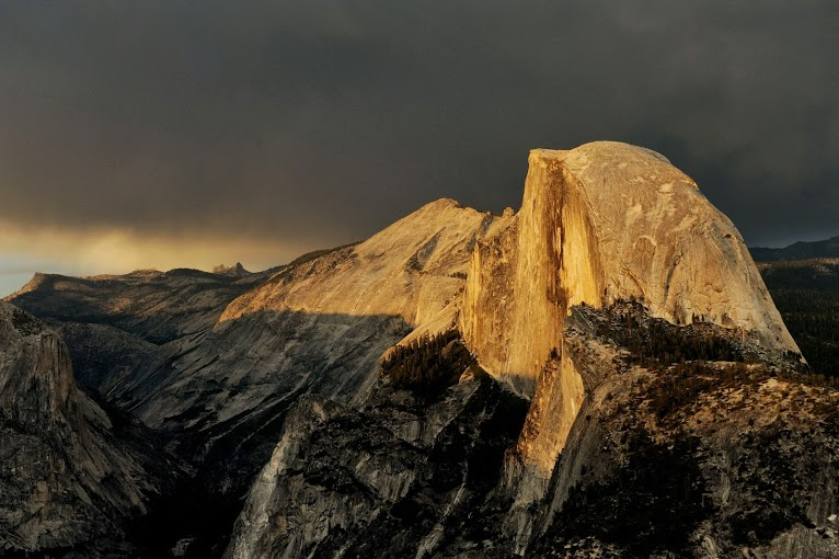 Half Dome traditional picture at Sunset.